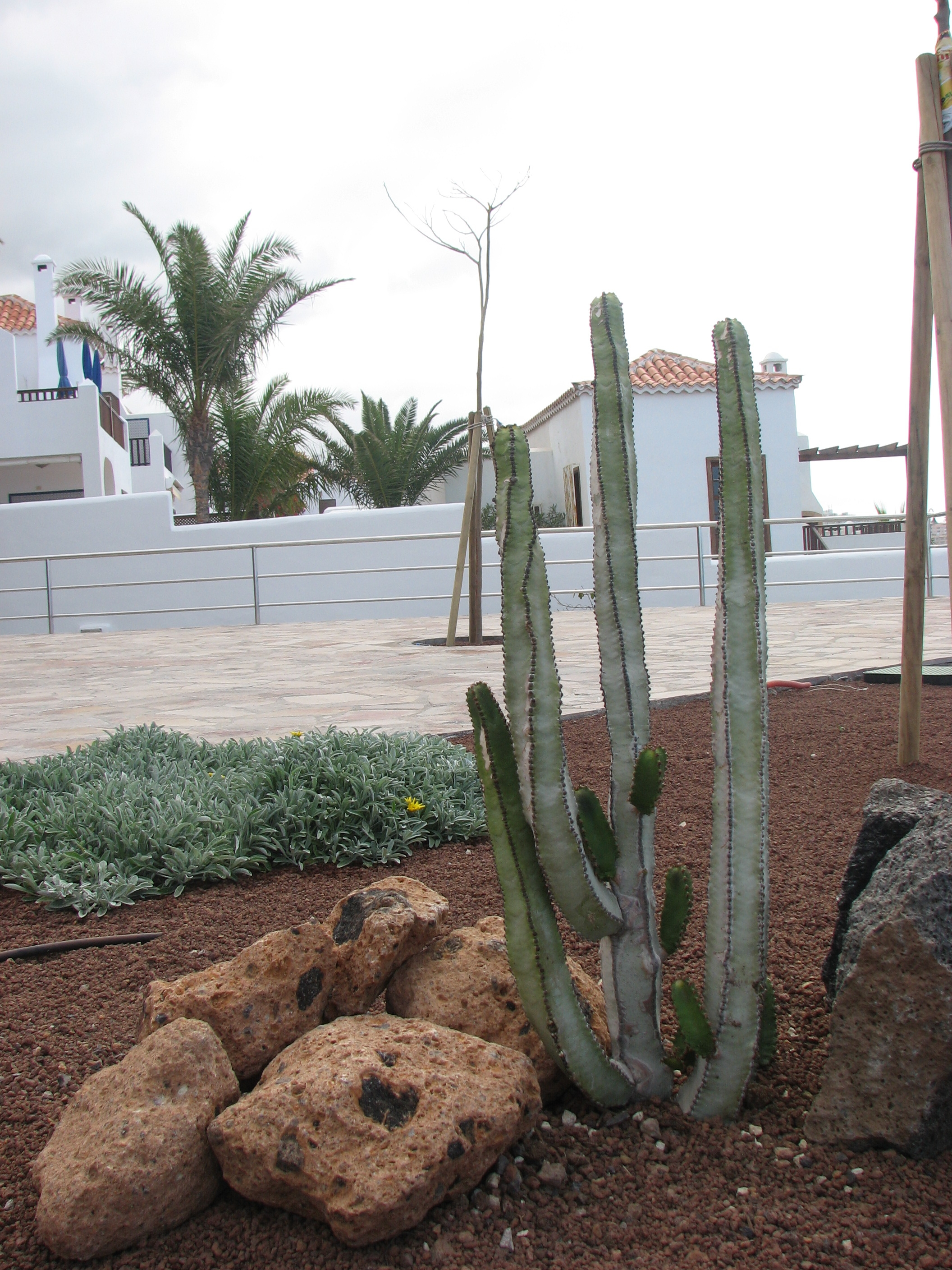 This is a cactus in Los Gigantes in Tenerife